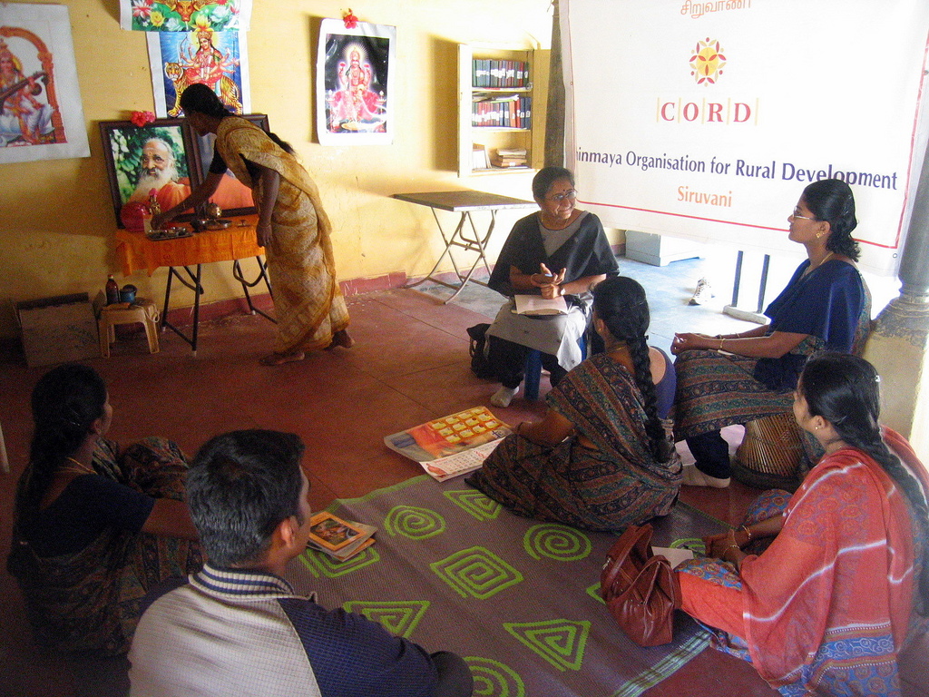 A meeting of Chinmaya Organisation for Rural Development CORD, a division of Chinmaya Mission, at Siruvani, Coimbatore